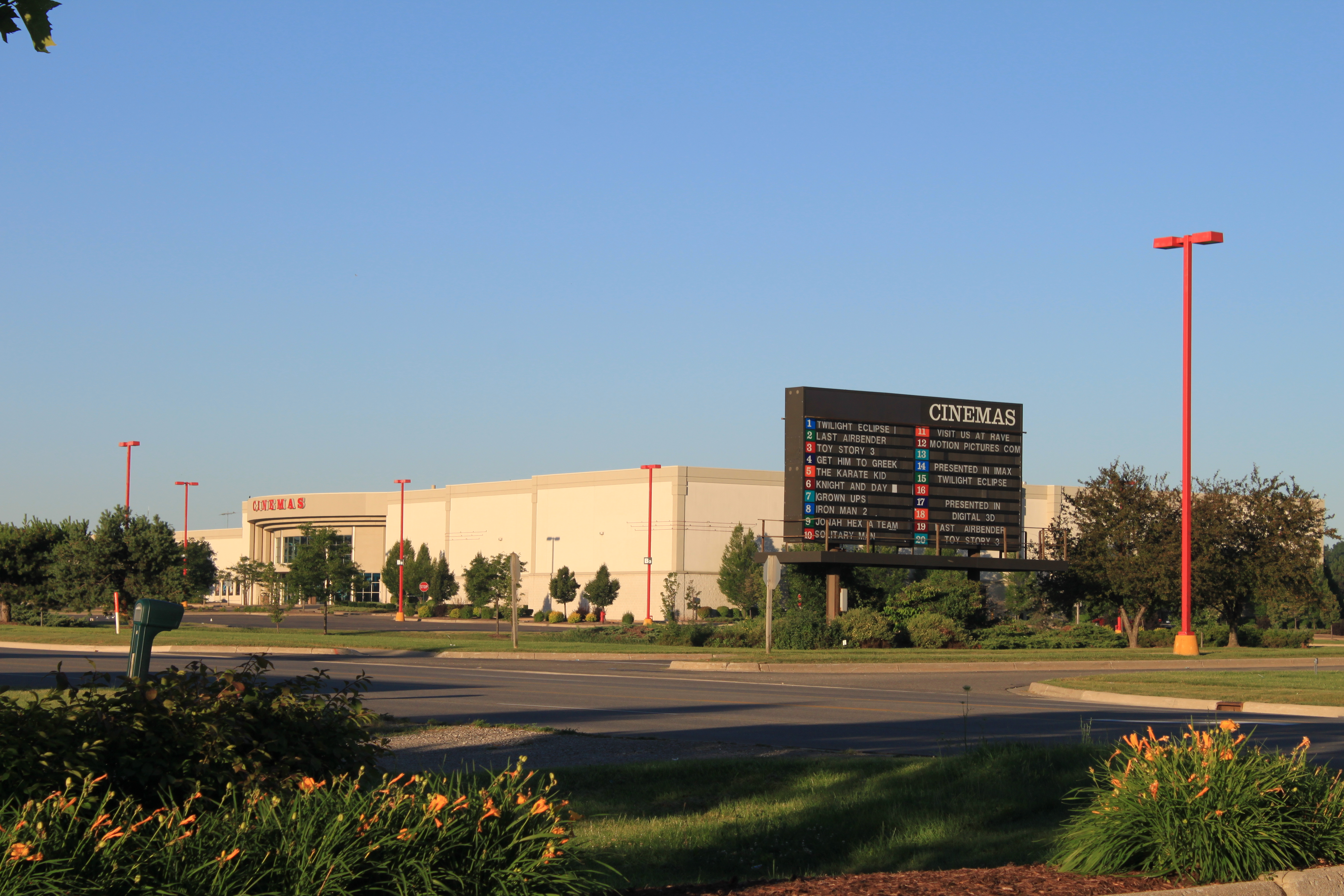 Rave Motion Pictures Ann Arbor, formerly Showcase Cinemas. 4100 Carpenter Road, Pittsfield Township, Michigan.